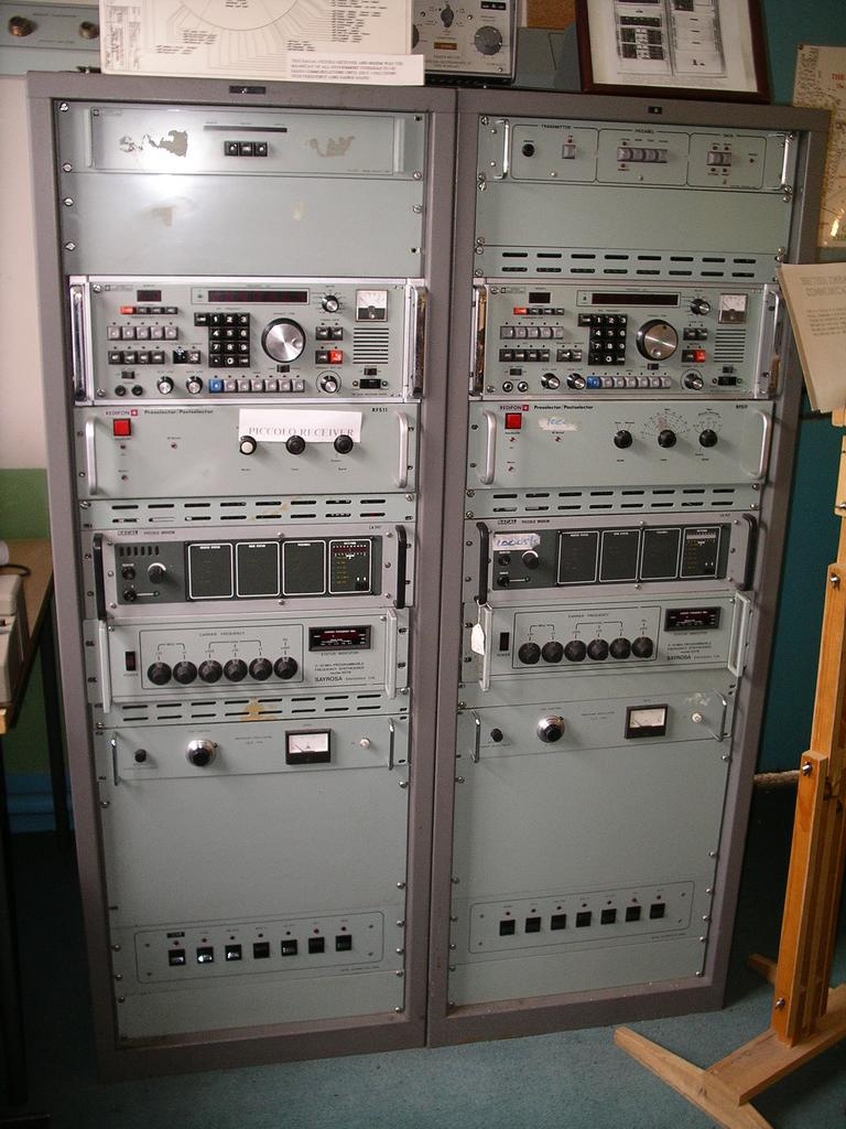 Piccolo was the multi-frequency shift keying radio telegraph system which the Foreign Office used for all diplomatic communications until 1993. This is what all communications equipment should look like.